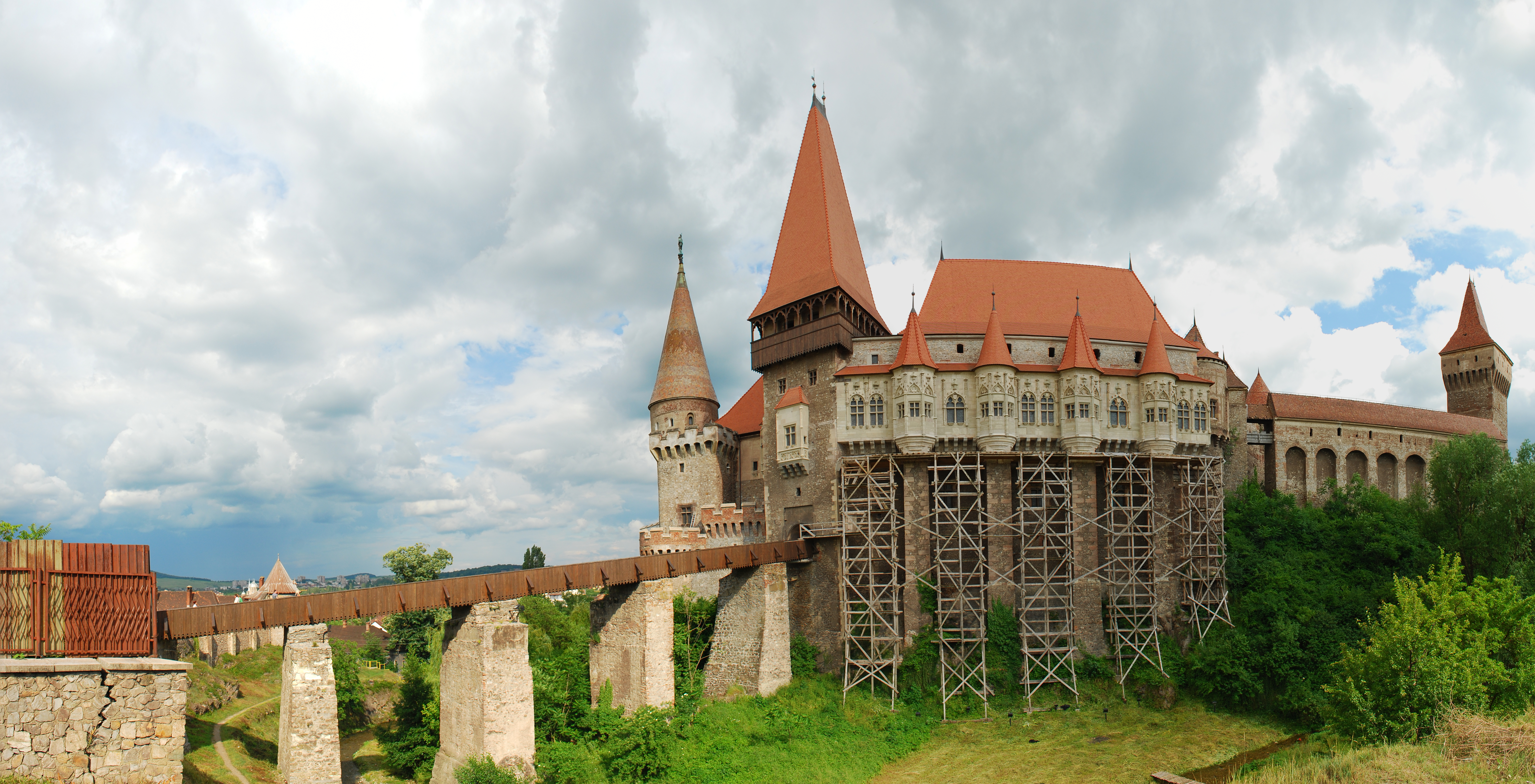 Corvin castle in Hunedoara, RomaniaRomână: Castelul Corvinilor din Hunedoara, România